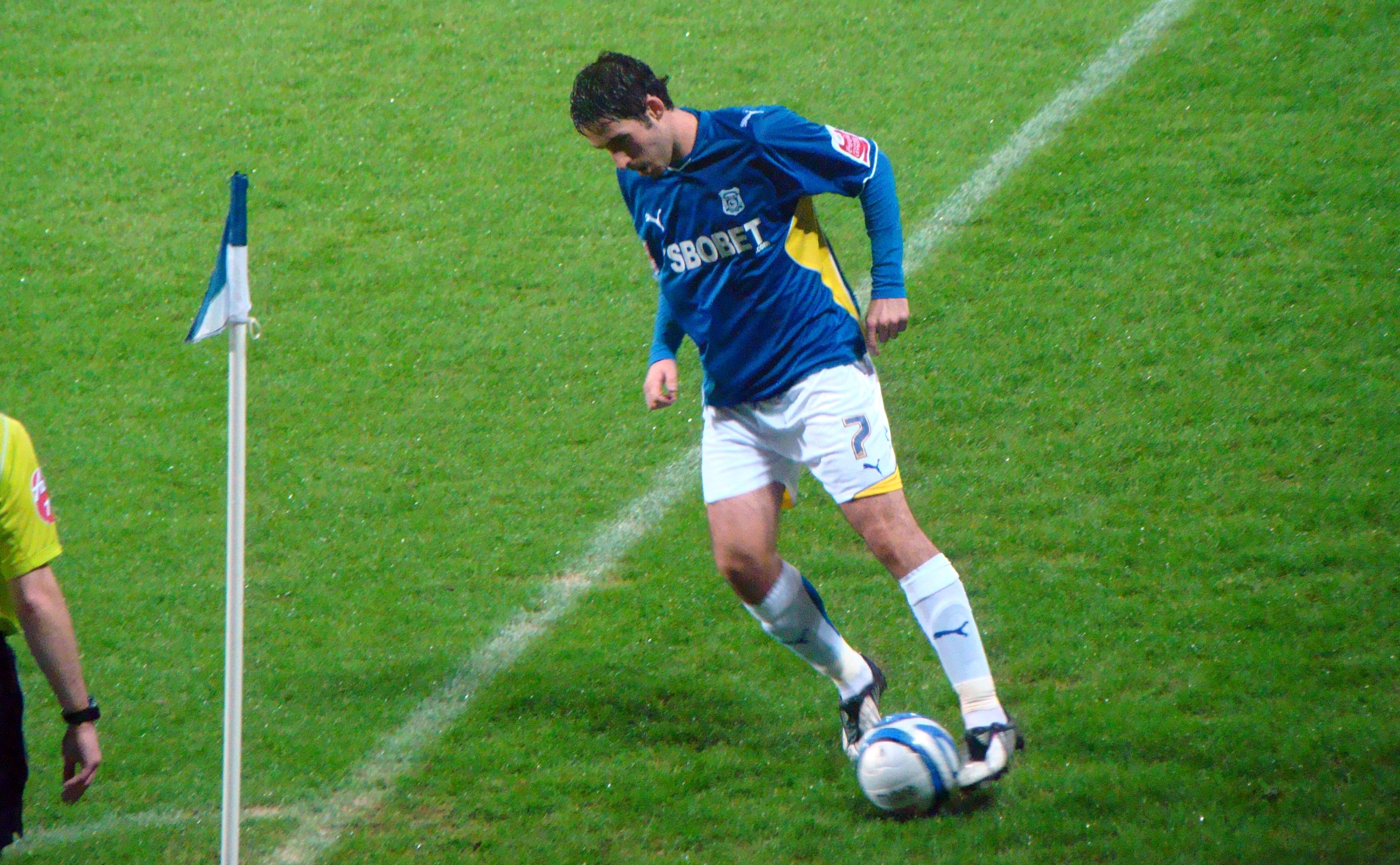 Peter Whittingham of Cardiff City F.C. 05/12/09 Cardiff V Preston, Cardiff City Stadium, Cardiff, Wales